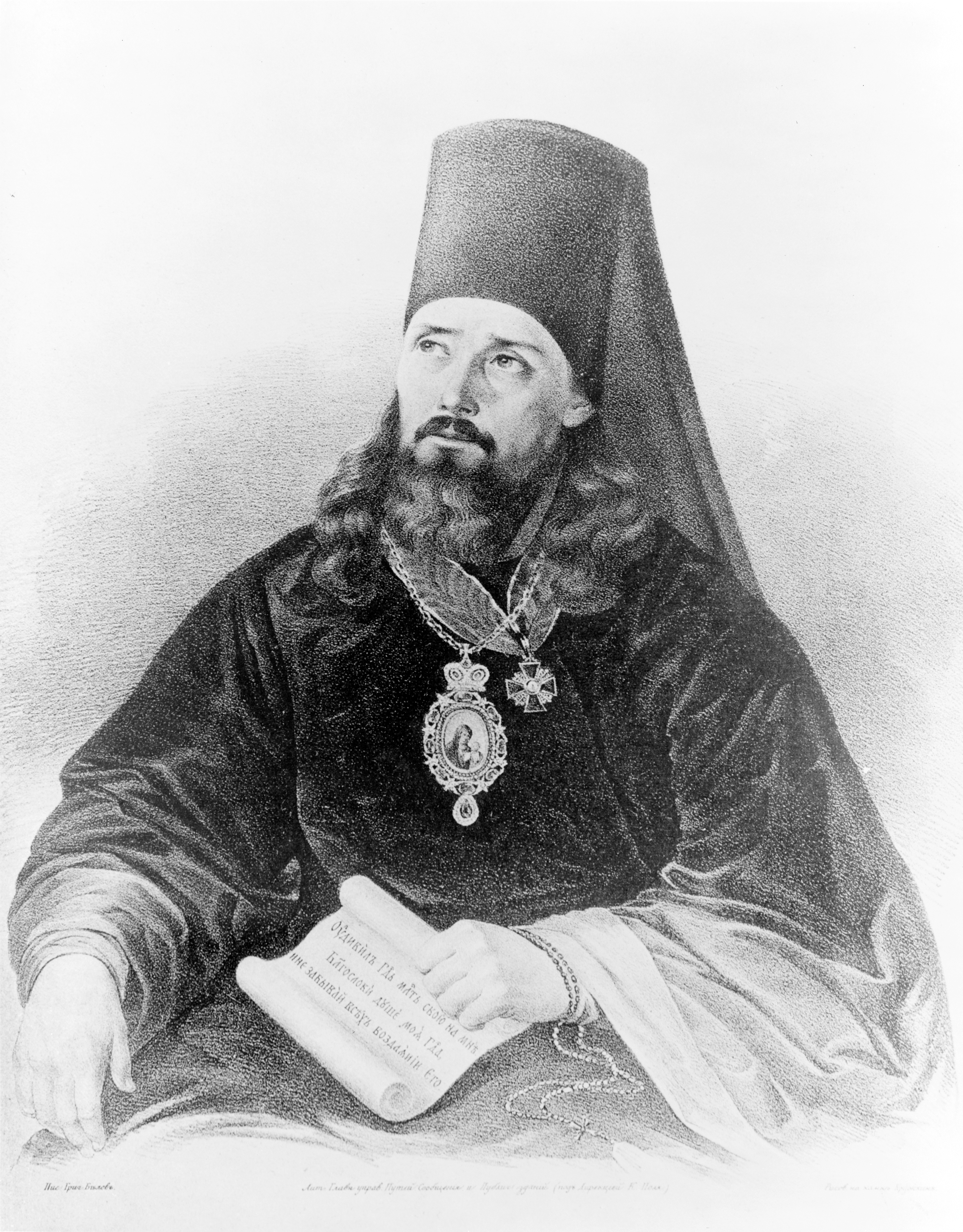 Saint Innocent of Alaska (1797-1879)